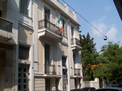 photo by User:athinaios, 2005